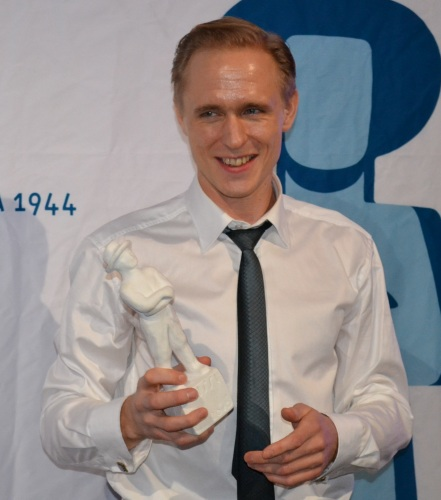 Sampo Sarkola in 2010 Jussi Award.